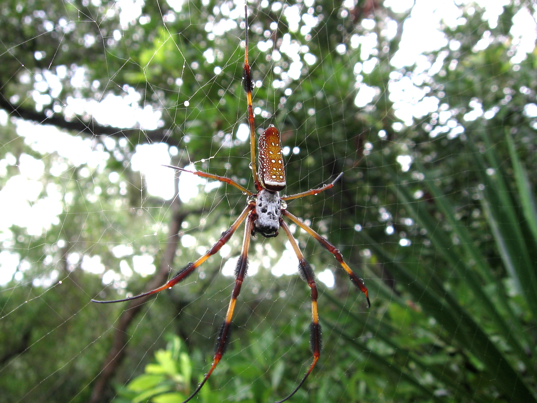 Golden orb-weavers. Photo taken near Saint Augustine, Florida